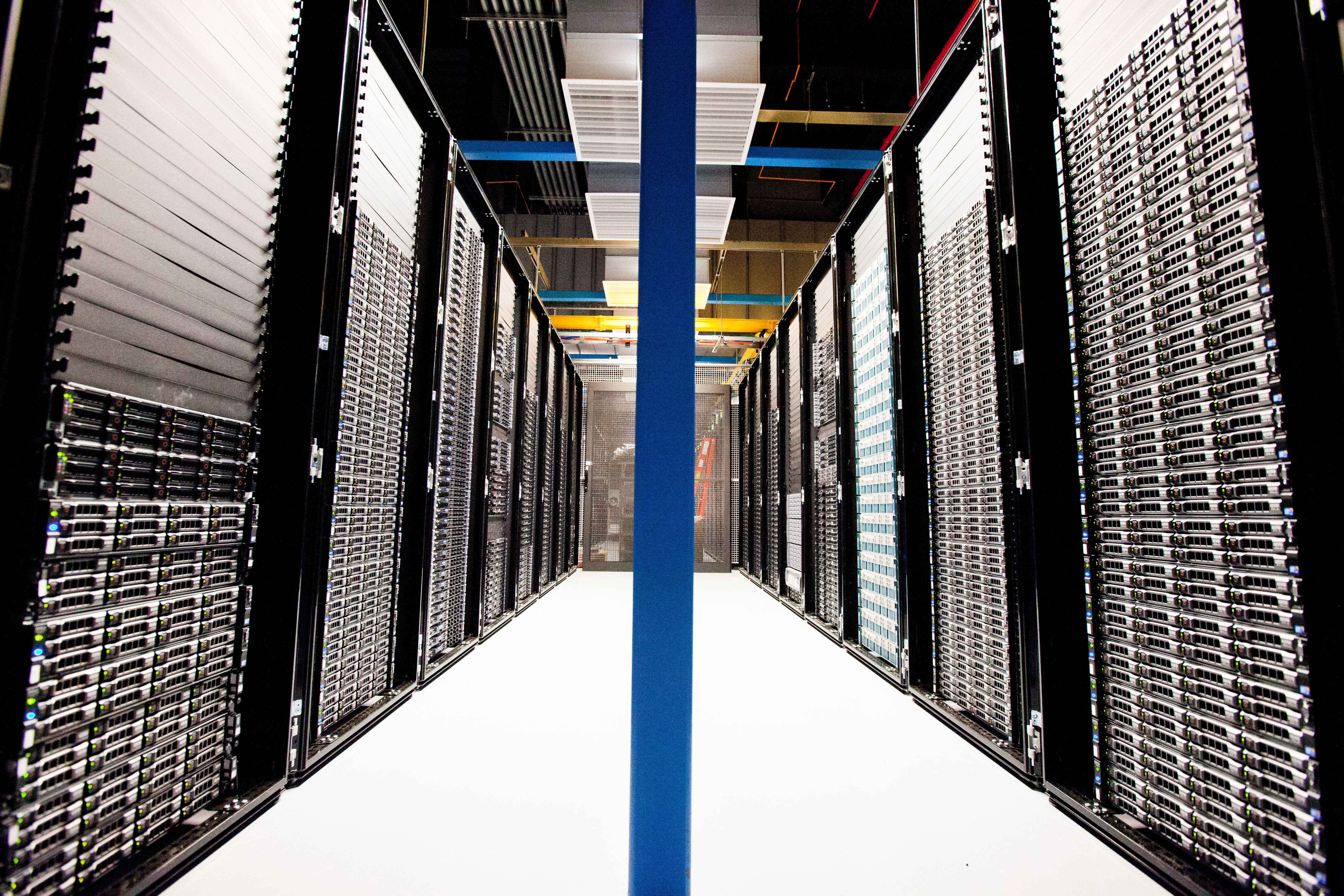 Wikimedia Servers